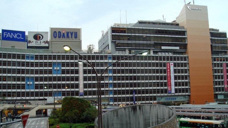 West-exit of Odakyu Shinjuku-station at TOKYO